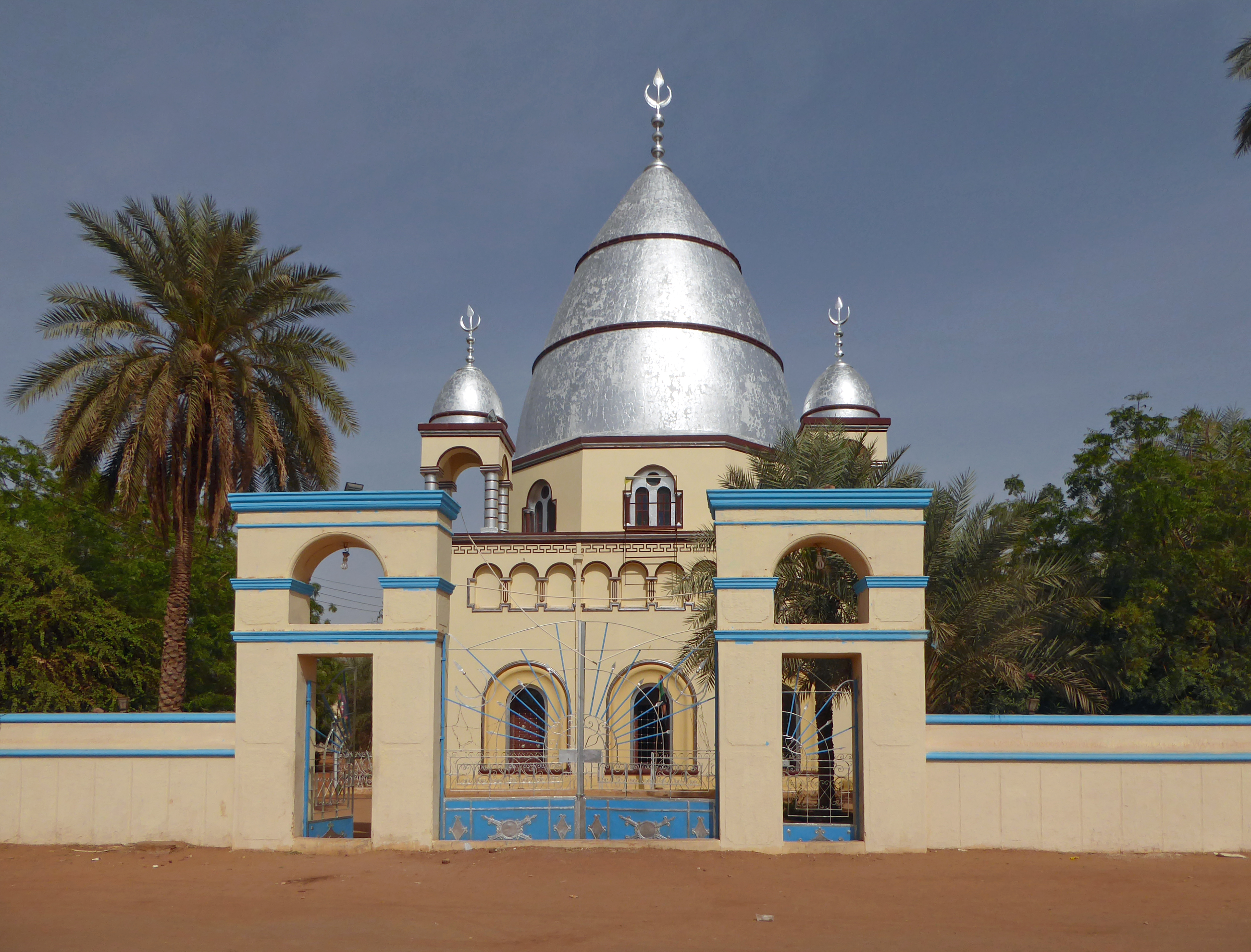 The Mahdi’s Tomb